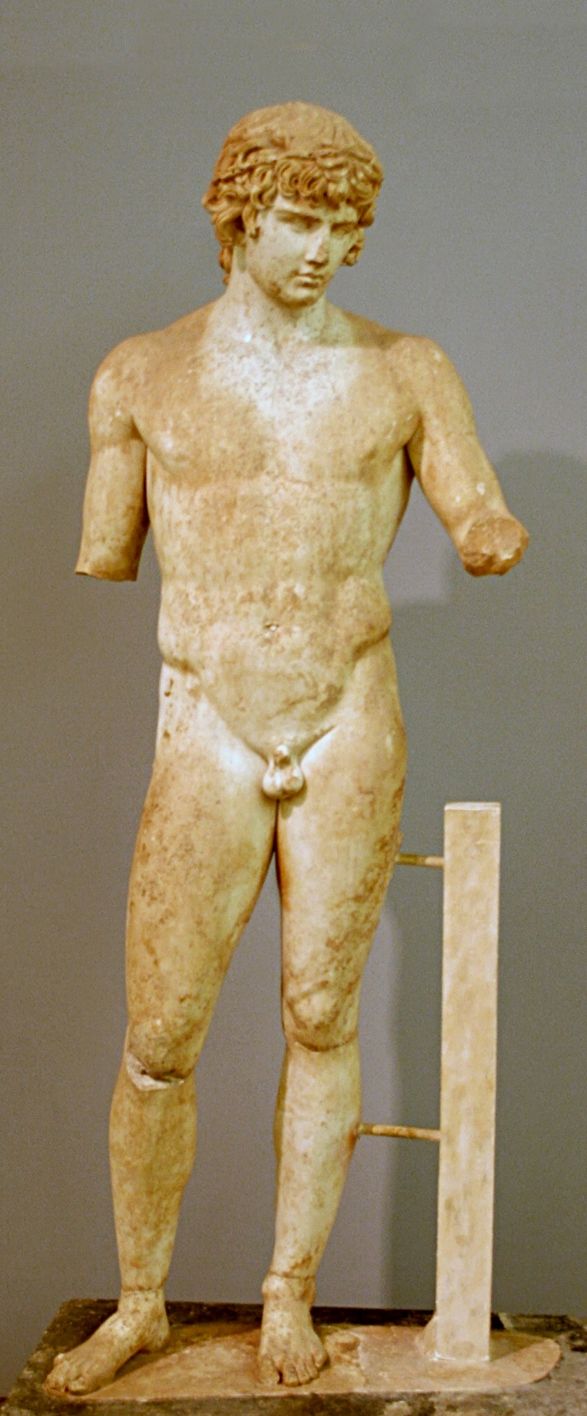 Cult statue of Antinous. Parian marble, reign of Hadrian (117-138 CE). H. 1.8 m (5 ft. 10 ¾ in.). Found in the temple of Apollo at Delphi, 1893. Archaeological Museum of Delphi.